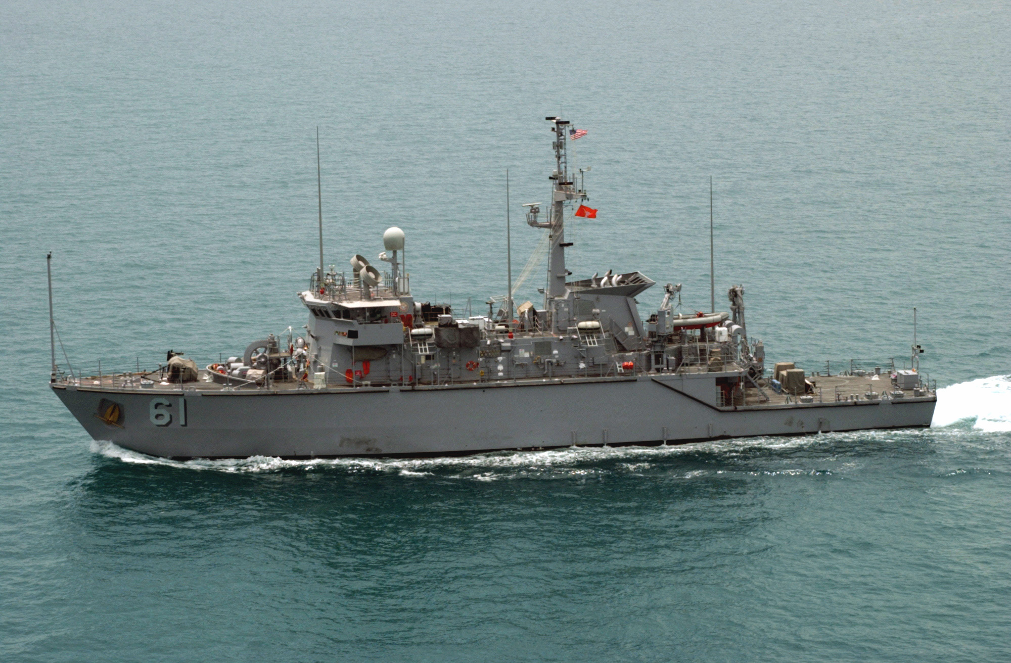 The US Navy Osprey Class Coastal Mine Hunter USS Raven (MHC 61) conducts local operations in the North Arabian Gulf. The coastal mine hunter is forward deployed to Manama, Bahrain, with the US Naval Forces Central Command/Commander Fifth Fleet area of responsibility (AOR) in support of the Global War on Terrorism. (Released to Public)